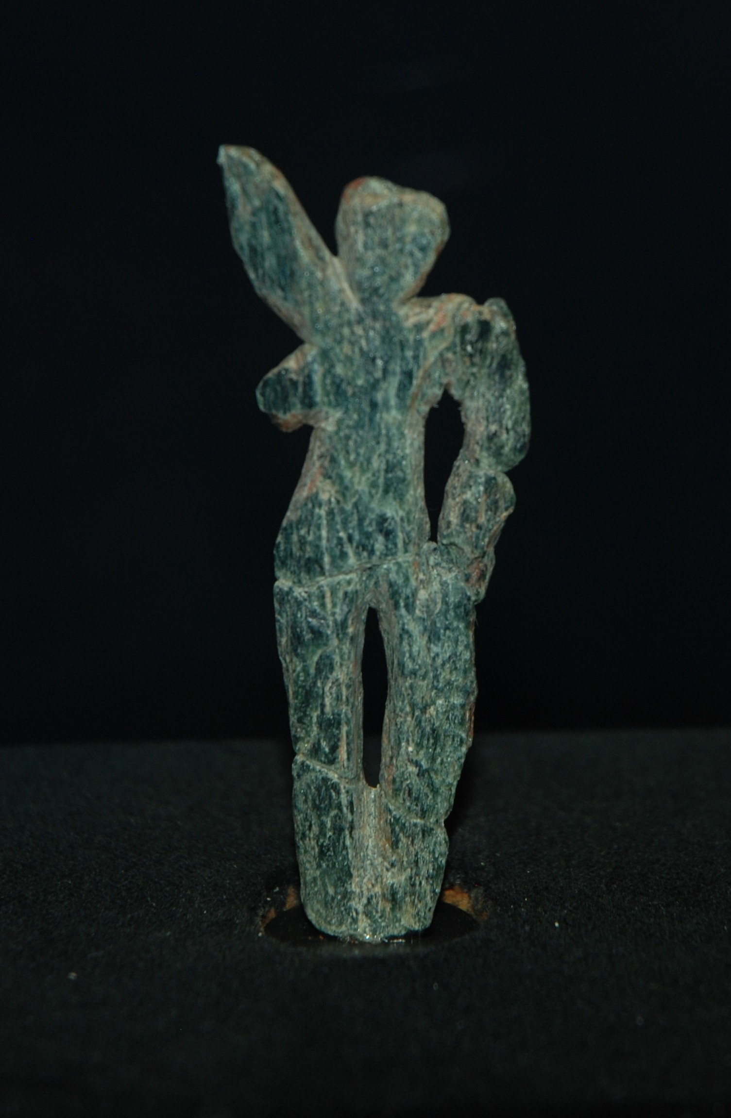 Venus vom Galgenberg, Austrian Museum of Natural History, Vienna